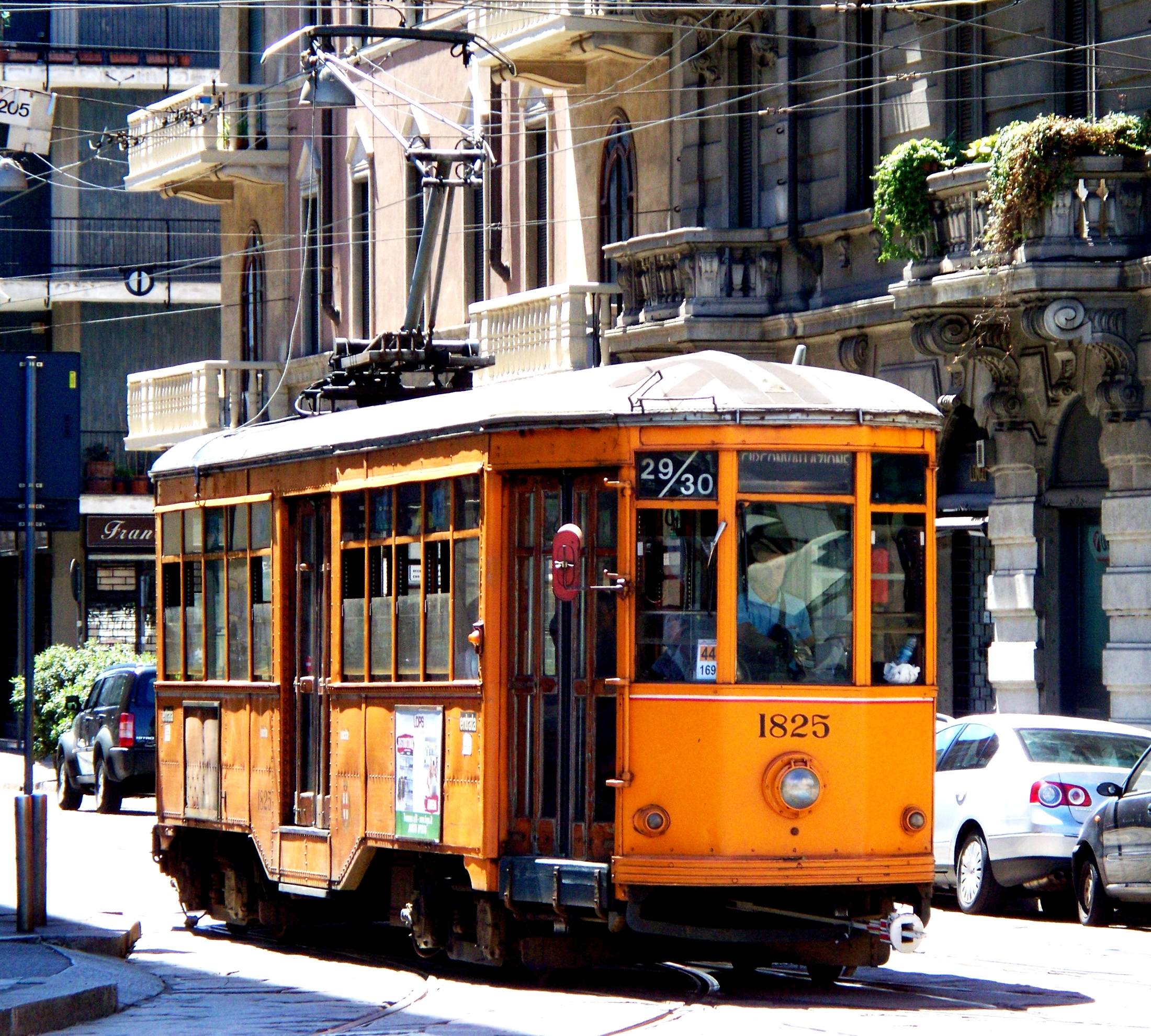 A historical tram that is still in use in Milan, Italy.